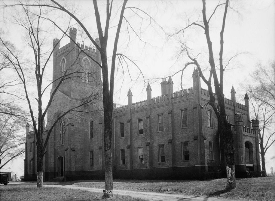 Old Southern University, University Avenue (College Street), Greensboro, Hale, AL. FRONT VIEW.